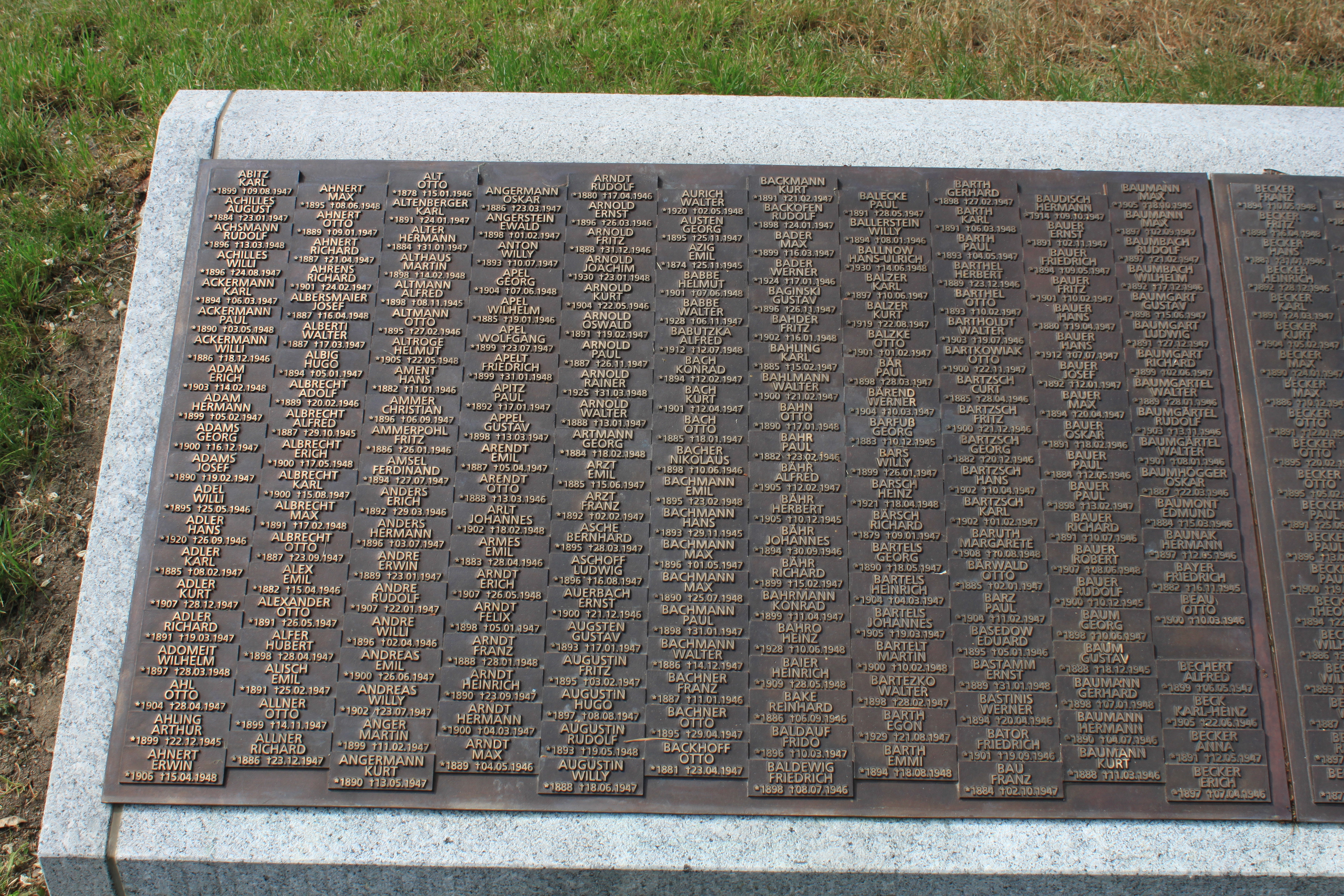 Memorial of the Stalag IVB/Speziallager Nr. 1 Mühlberg/Elbe